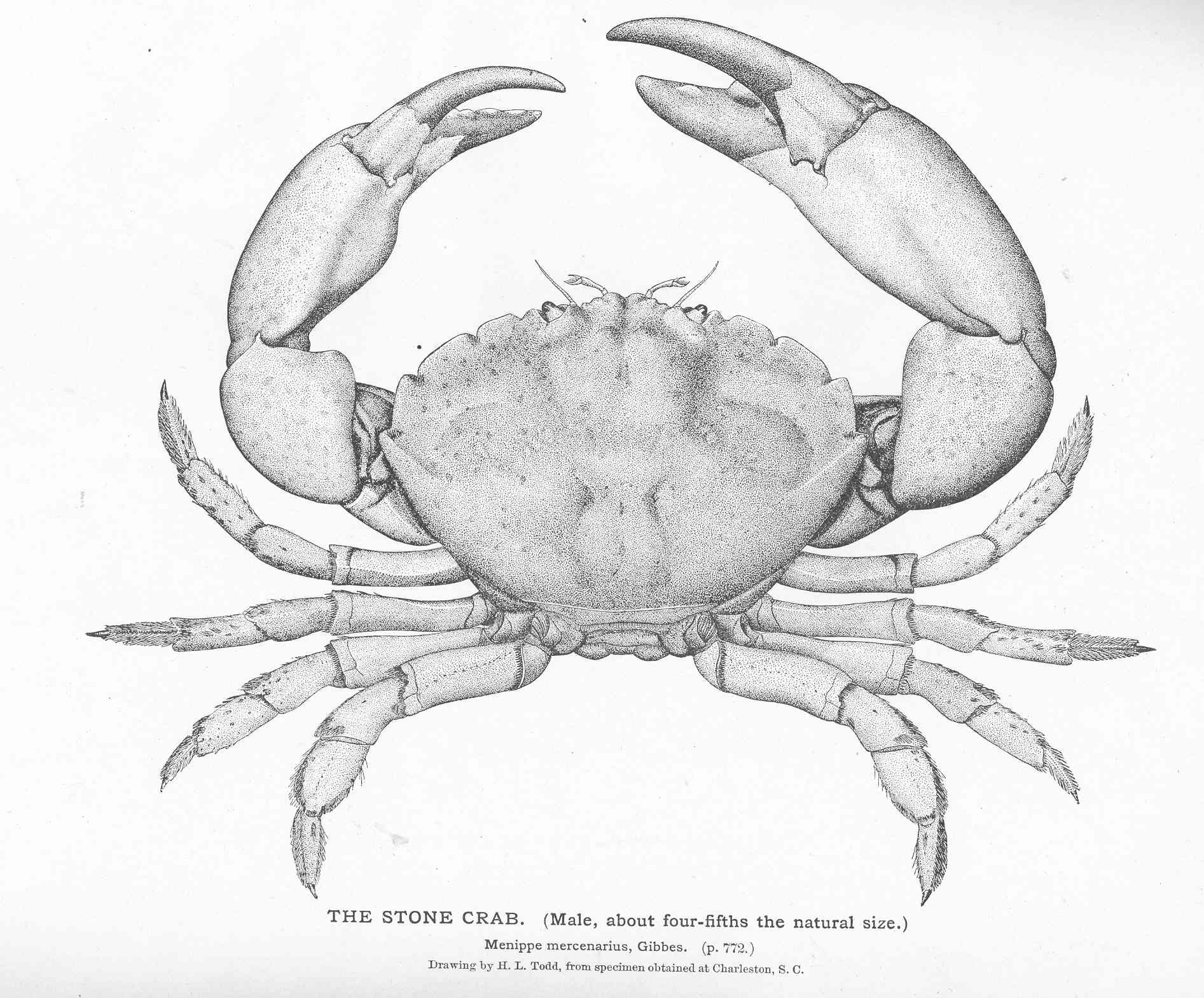 Stone Crab (Male) Menippe mercenarius, Gibbes Subject: Crabs, Menippe mercenaria Tag: Shellfish